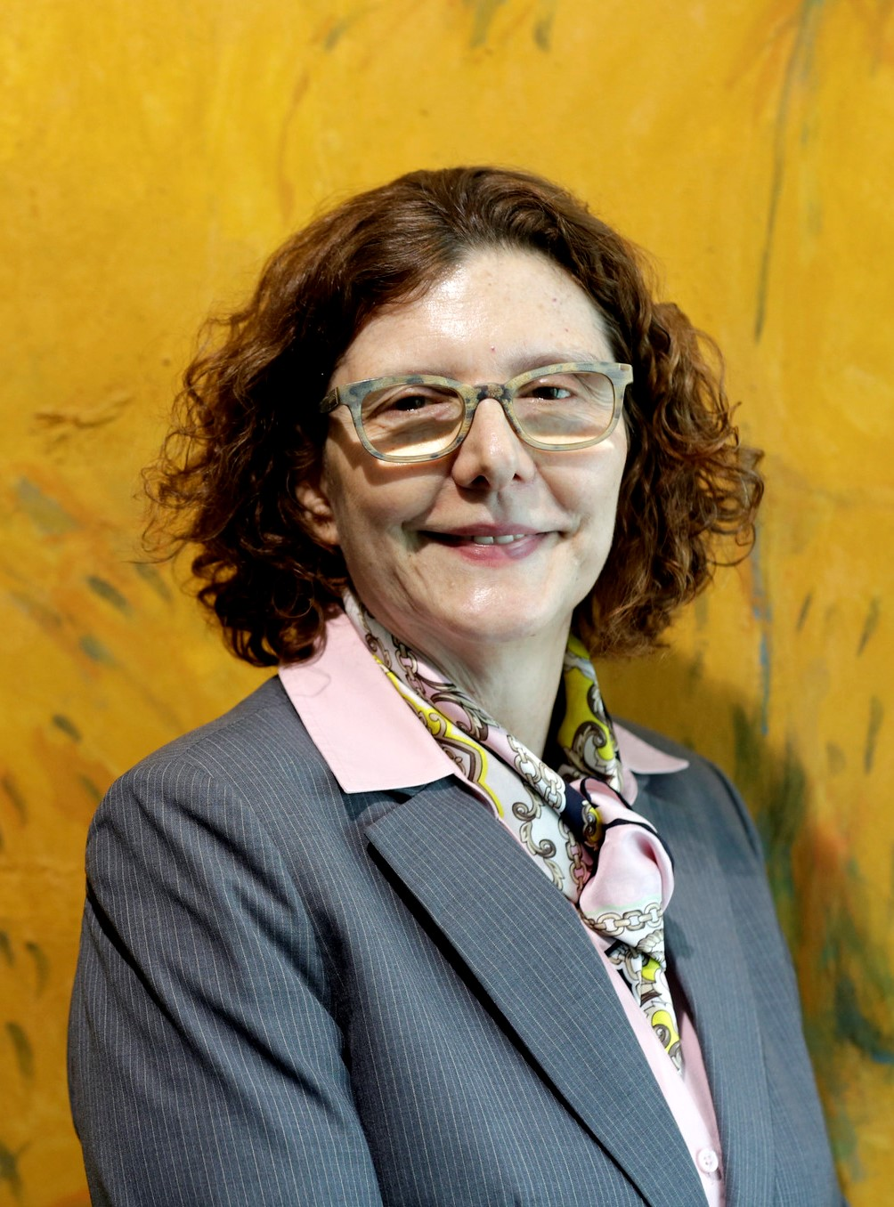 Brazilian Ambassador Mariângela Rebuá